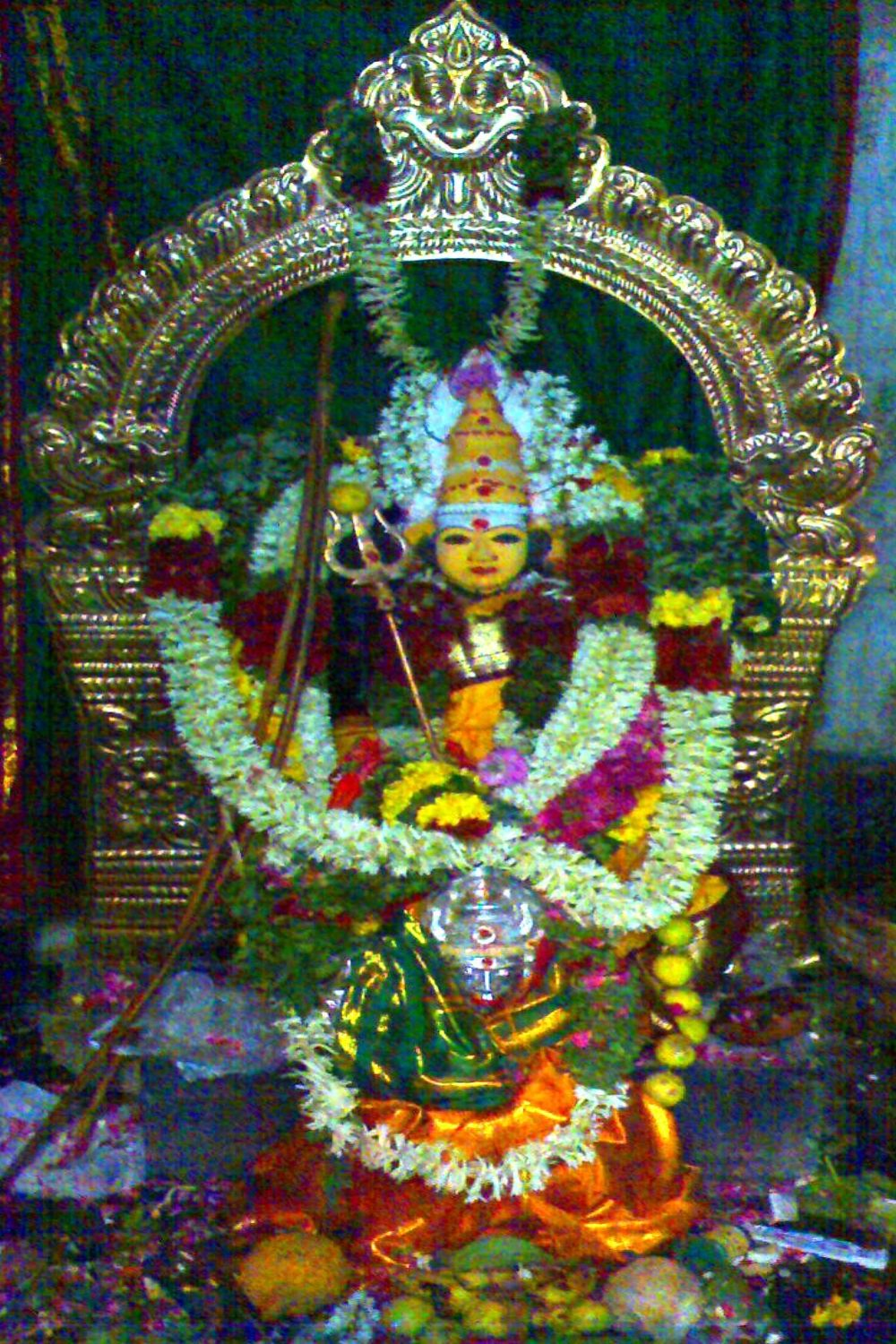 Godess Giving Health and Wealth